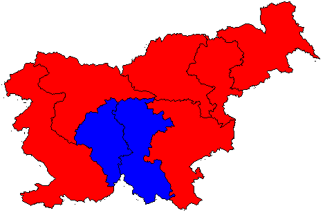 First round results of Slovenian presidential election, 2012. Orange won by Borut Pahor, violet won by Danilo Türk. Derived from with sources from Update